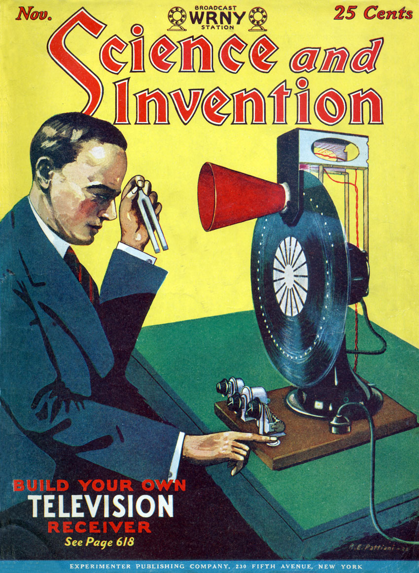 The television image would be viewed through the cone. The image was 1.5 inches square (4 by 4 cm) and had 48 scan lines at 7.5 frames per second. (This was a low definition "48p" display.) The man is using a 125 hertz tuning fork to adjust the scanning wheel to 450 RPM. By looking through the tuning fork at the line pattern on the hub, he could see when the wheel was at the correct speed. "How to build the S&I Television Receiver" starts on page 618. Science and Invention, November 1928. Volume 16 Number 7. Published by Experimenter Publishing. New York, NY. Editor-in-Chief and Publisher: Hugo Gernsback Cover Art by R. E. Pattiani. Image:Science and Invention Nov 1928 Cover 2.jpg Image:Science and Invention Nov 1928 pg578.png Image:Science and Invention Nov 1928 pg618.png Image:Science and Invention Nov 1928 pg619.png Image:Science and Invention Nov 1928 pg620.png Image:Science and Invention Nov 1928 pg632.png Image:Science and Invention Nov 1928 pg634.png Image:Science and Invention Nov 1928 pg636.png The page numbers were on an annual basis, not per issue. This issue had pages 577 to 672. The magazine is 8.5 by 11.5 inches.